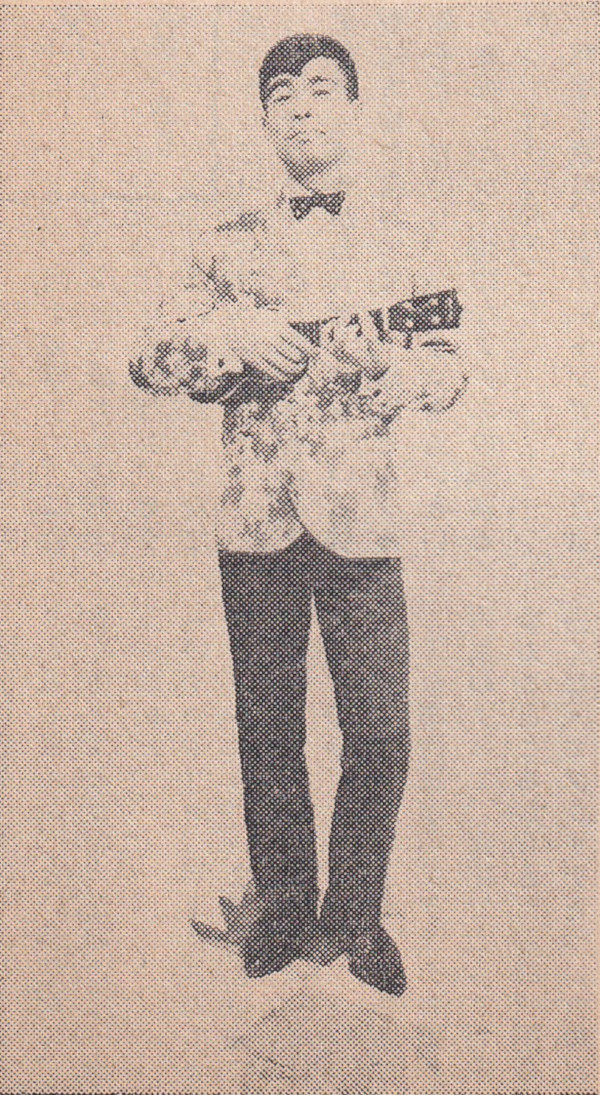 Shinji Maki. taken in 1966 or earlier.